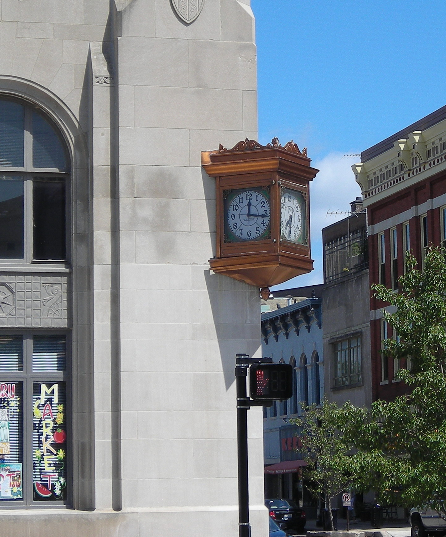 Elgin Tower Building. Elgin, Kane County, Illinois. National Register of Historic Places.